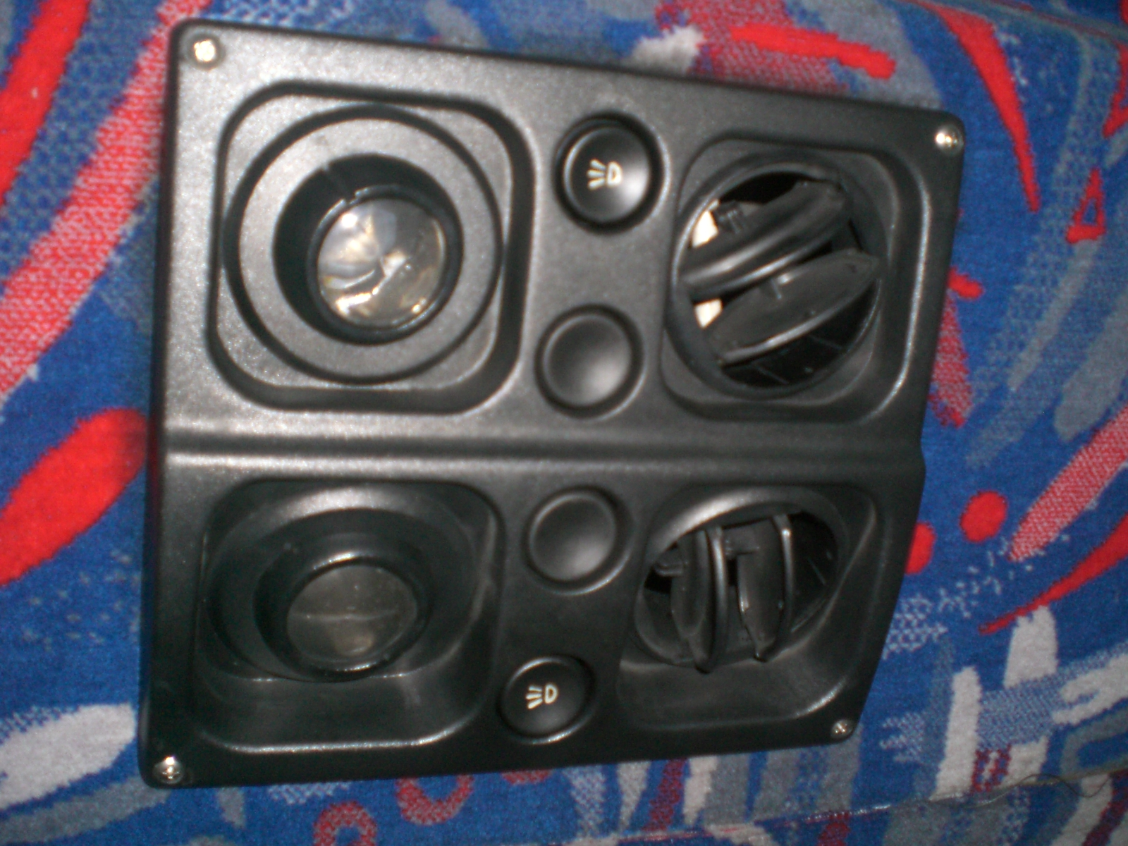 Description= Facilities in side of a bus. 空調巴士 Source= self-made Author= BAZRCON